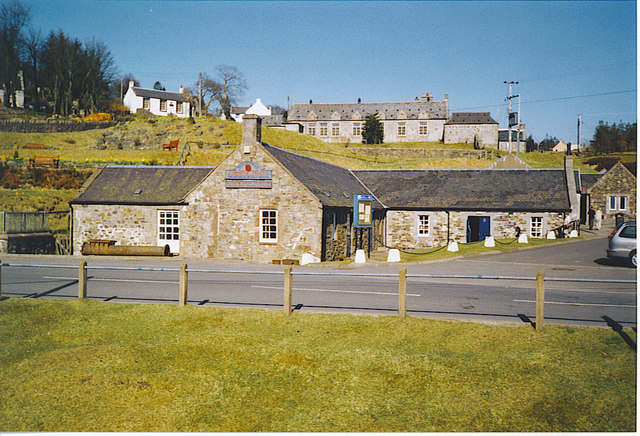 The Museum of Lead Mining, Wanlockhead. Lead was mined in the hills around Wanlockhead till 1934, then again in 1957-58. Gold and silver has also been mined here since Roman times and local gold was used in James V's crown of 1540. This stone-built museum formerly housed a Miners' Subscription Library.